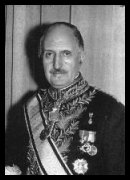 don Gabriel Sánchez de la Cuesta, president of the Royal Academy of Medicine of Sevilla